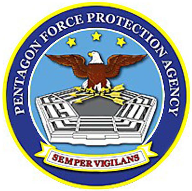 Seal of the Pentagon Force Protection Agency.